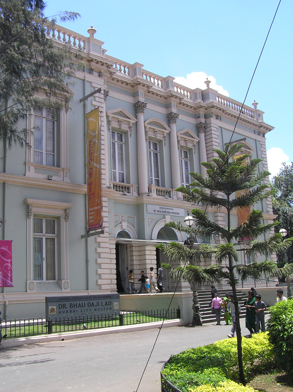 This is the oldest Museum in Mumbai. It was started in 1872 as the Victoria and Albert Museum. The museum was then renamed as the Dr. Bhau Daji Lad Museum 1975. The Museum holds a decent collection of artifacts largely pertaining to the mumbai region. Not as well known as the Prince of Wales museum, it recently reopened to the public after rennovations.